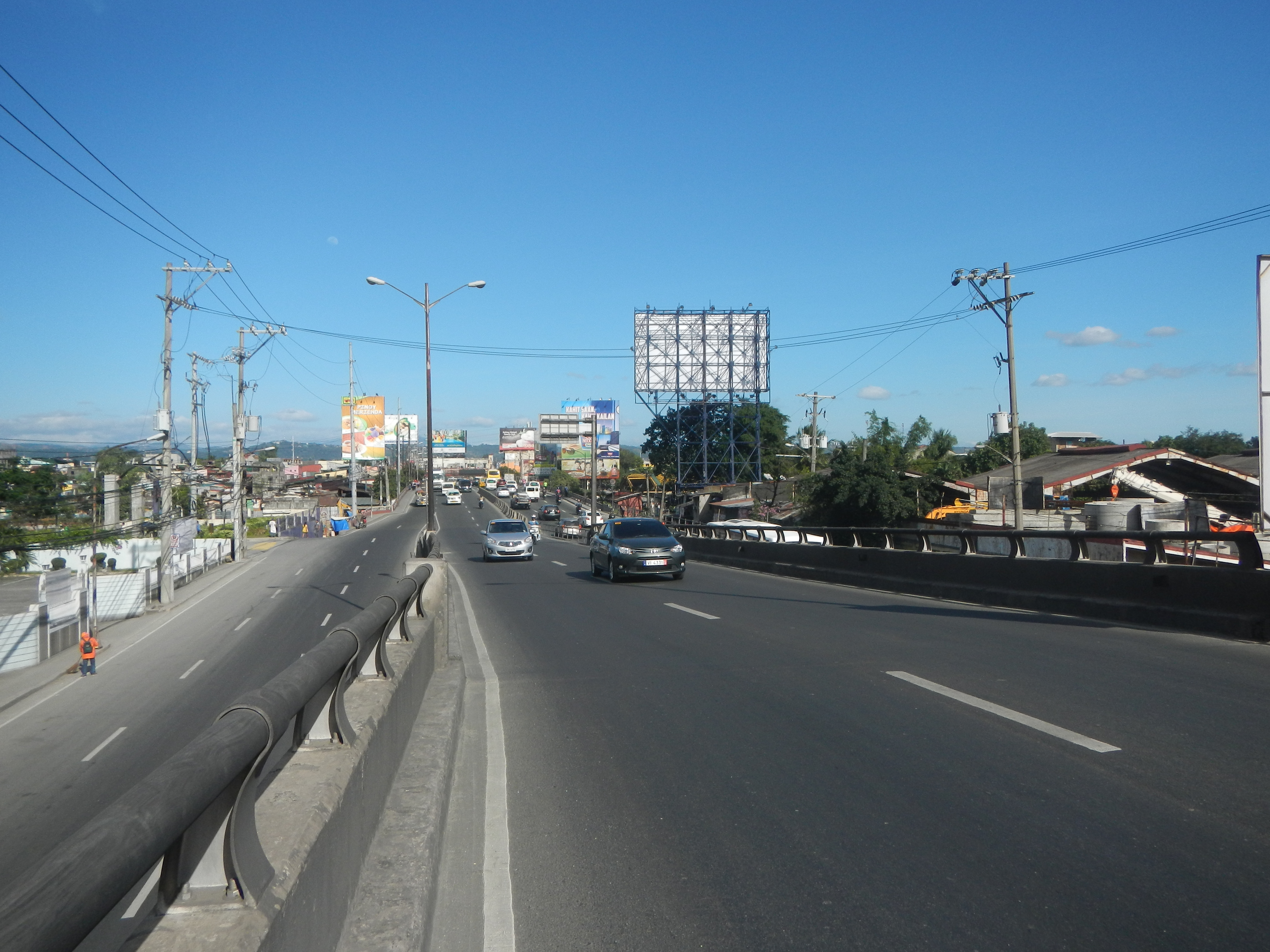 C-5 Ortigas Avenue Interchange (Pasig) 14°35'23"N 121°4'47"E Circumferential Road 5–Ortigas Avenue Coordinates: 14°35′23.11″N 121°4′47.84″E An intersection in Ortigas Avenue and C-5 E. Rodriguez, Jr. to Rosario Bridge (Rosario-Ugong, Pasig City) Load limit 20 metric tons K0014+380 - K0014+204 length 170 meters Rosario LS Water Level Gauging Station, PAGASA, DOST Donated by the Republic of Korea KOICA Early warning and monitoring system for Disaster mitigation in Metro Manila Construction of Pasig-Marikina River Channel Improvement Project Phase III Contract Package No. 2 Lower Marikina River June 1, 2014-May 27, 2017 JICA Loan No. PH P 252 & GOP Marikina River Pasig River Rehabilitation of the Pasig River Pasig River Rehabilitation Commission Pasig-Marikina River Channel Improvement Project (Phase III) in the List of barangays of Metro Manila, Barangay Ugong, Pasig Rosario 14°35'33"N 121°5'35"E Ugong 14°34'54"N 121°4'21"E Pasig City Radial Road 5 Circumferential Road 5 to Shaw_Boulevard (Note: Judge Florentino Floro, the owner, to repeat, Donor Florentino Floro of all these photos hereby donate gratuitously, freely and unconditionally all these photos to and for Wikimedia Commons, exclusively, for public use of the public domain, and again without any condition whatsoever).